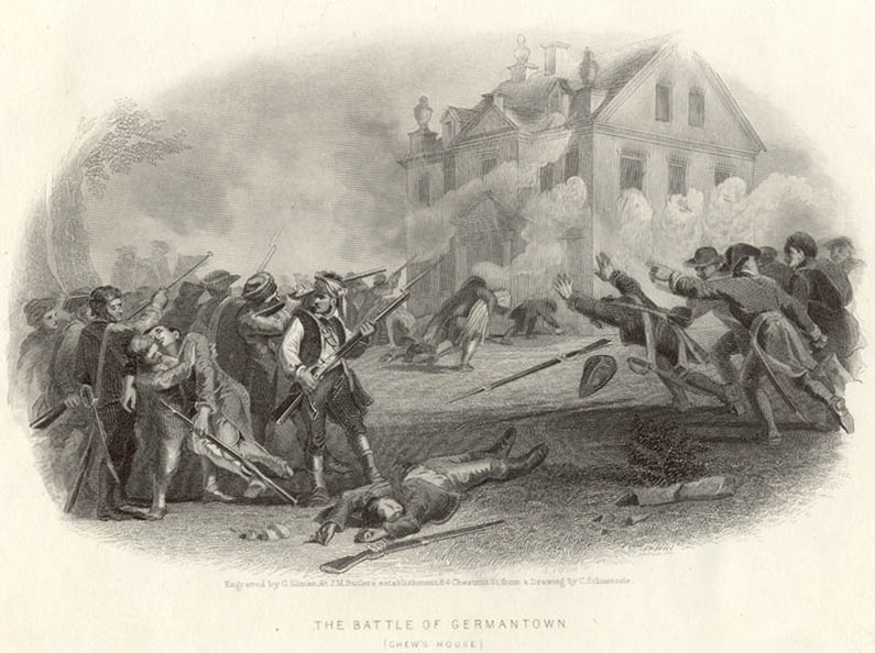 Battle of Germantown